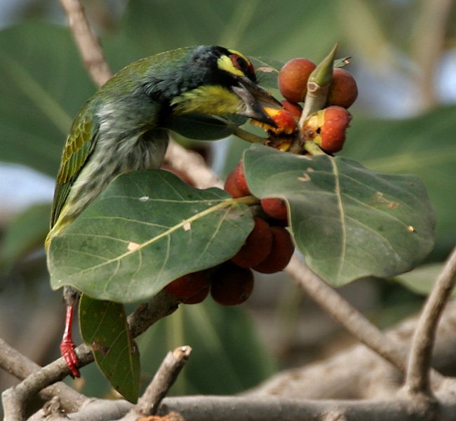 Coppersmith Barbet or Crimson-breasted Barbet Megalaima haemacephala feeding on Ficus benghalensis in Hyderabad, India.